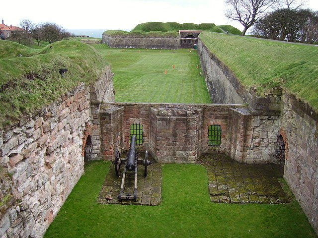 Berwick town walls. Built in the 16th Century to successfully hold the enclave on the north shore of the Tweed. Border towns often have some interesting military works, especially if "behind enemy lines" and this is no exception with well preserved walls surrounding the centre, even along the river.